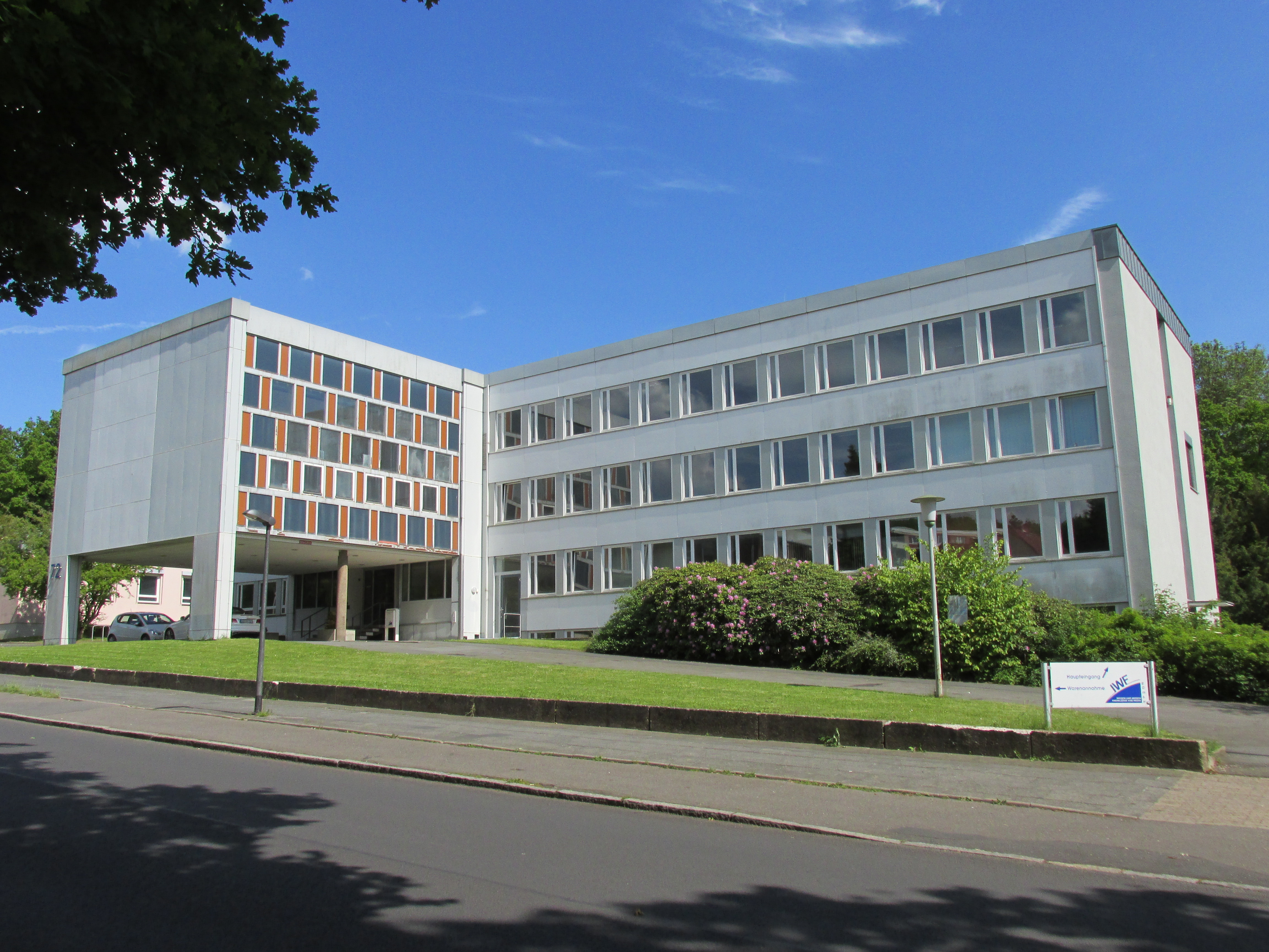 Building of former IWF Knowledge and Media, Göttingen, Germany check usage Address Nonnenstieg 72 37075 Göttingen Germany Date20 May 2014SourceOwn work. (→ weitere 1,779 Bilder von mir in der Galerie)AuthorStefan FlöperPermission (Reusing this file) cc-by-sa-3.0, gfdl 1.2+